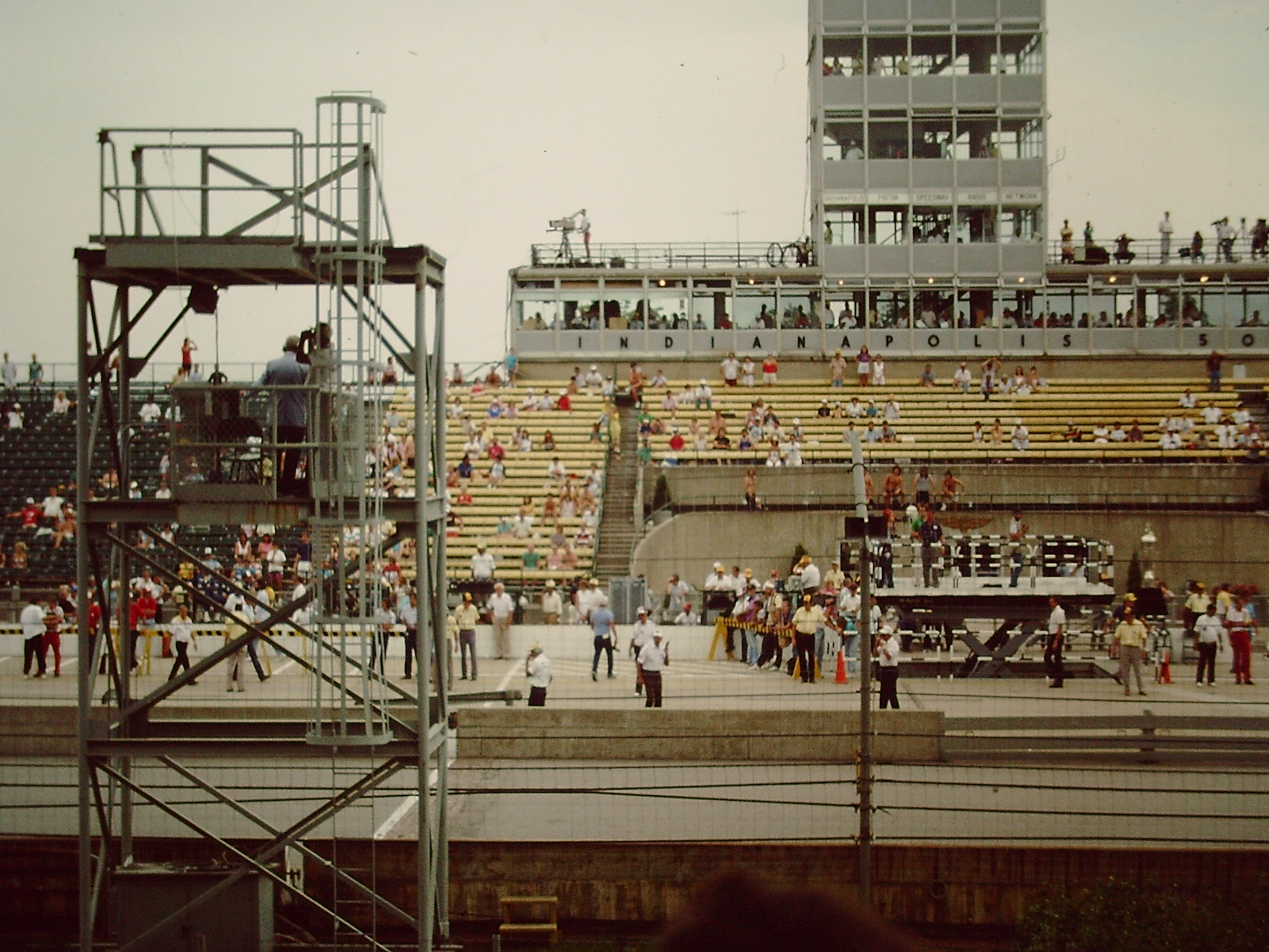 The Steel & Glass Master Control Tower at the Indianapolis Motor Speedway in 1988